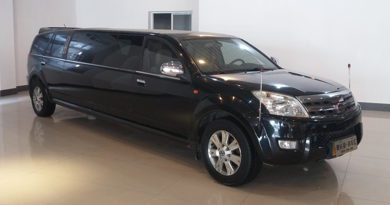 Great Wall Hover Π photographed in Wuhan, Hubei province, China.